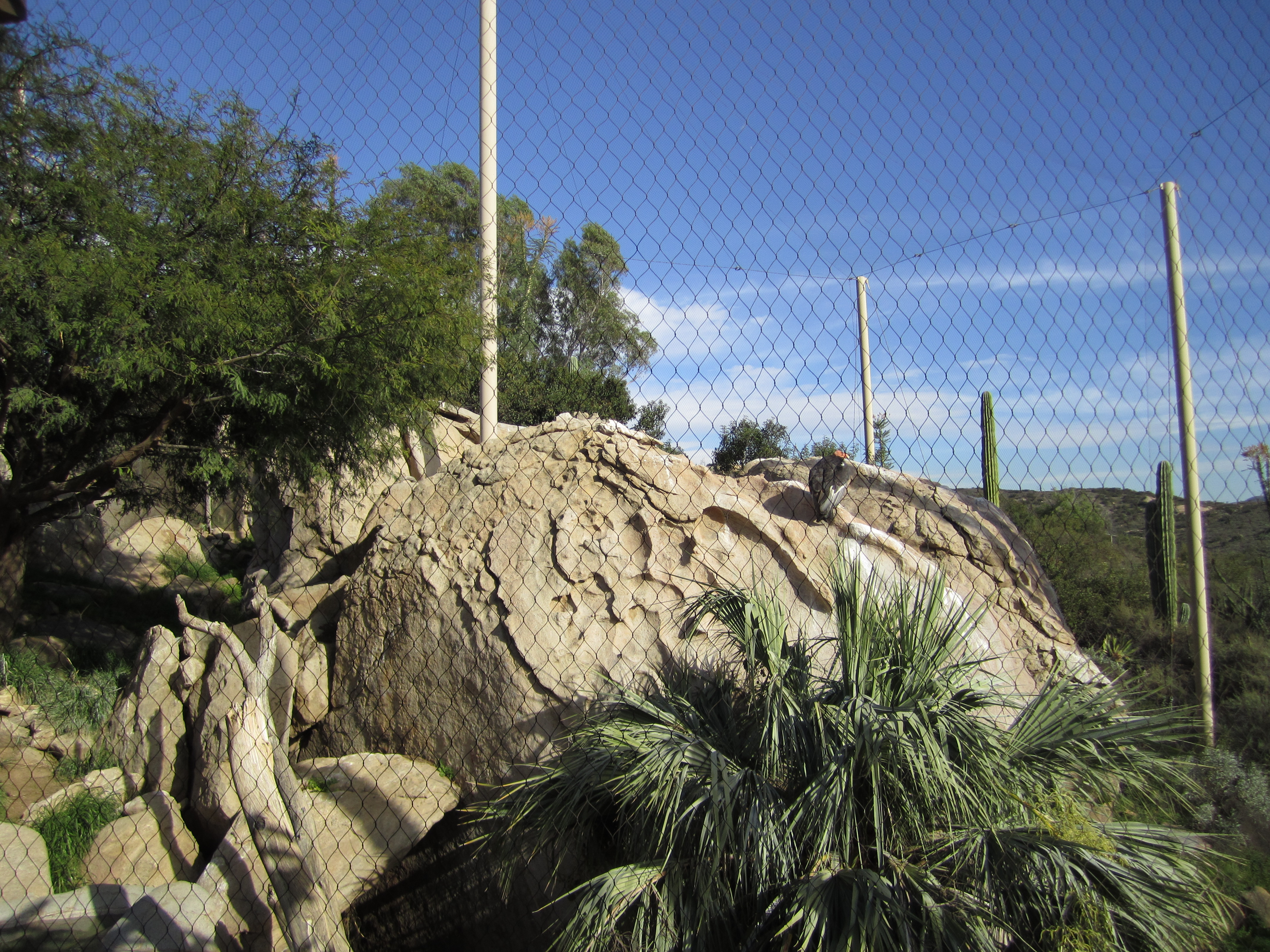 The California Condor aviary in Condor Ridge with a monolithic artificial rock on which the birds can perch